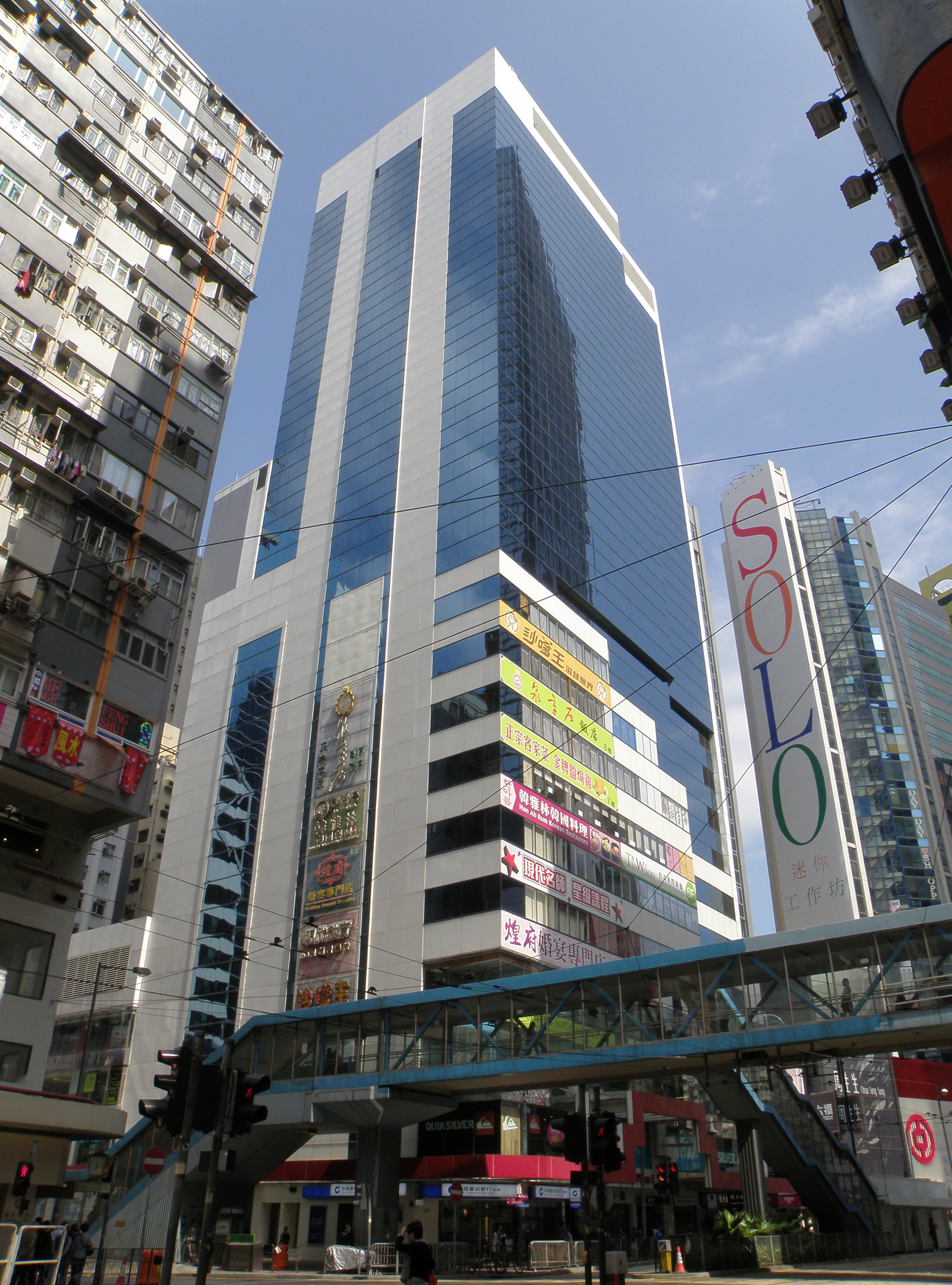 Plaza in Causeway Bay, Hong Kong.